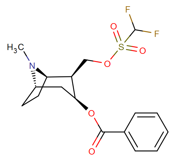 C2 substituted cocaine analogue from Carroll patent